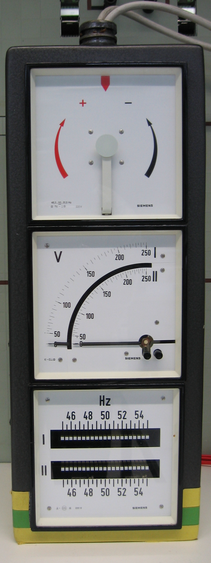 Synchronoscope stack used to manually synchronise an electrical generator to the power grid